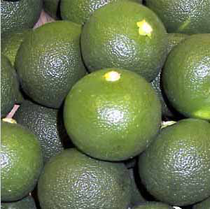 Pictures of some sudachi fruit